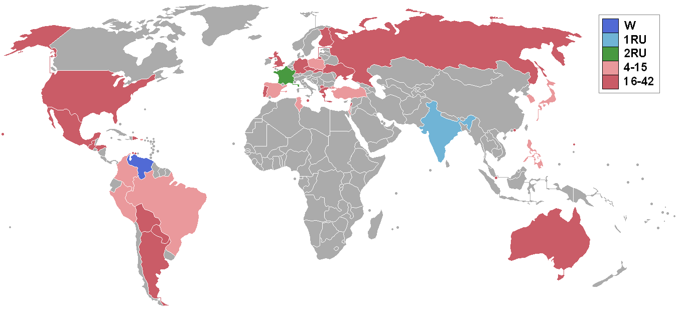 ms international 1997 results map